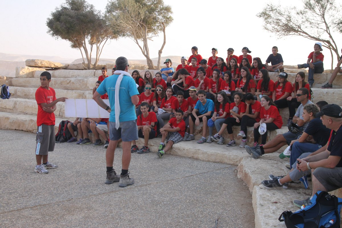 Class of children Israel - "THE BEN GURION HERITAGE INSTITUTE"